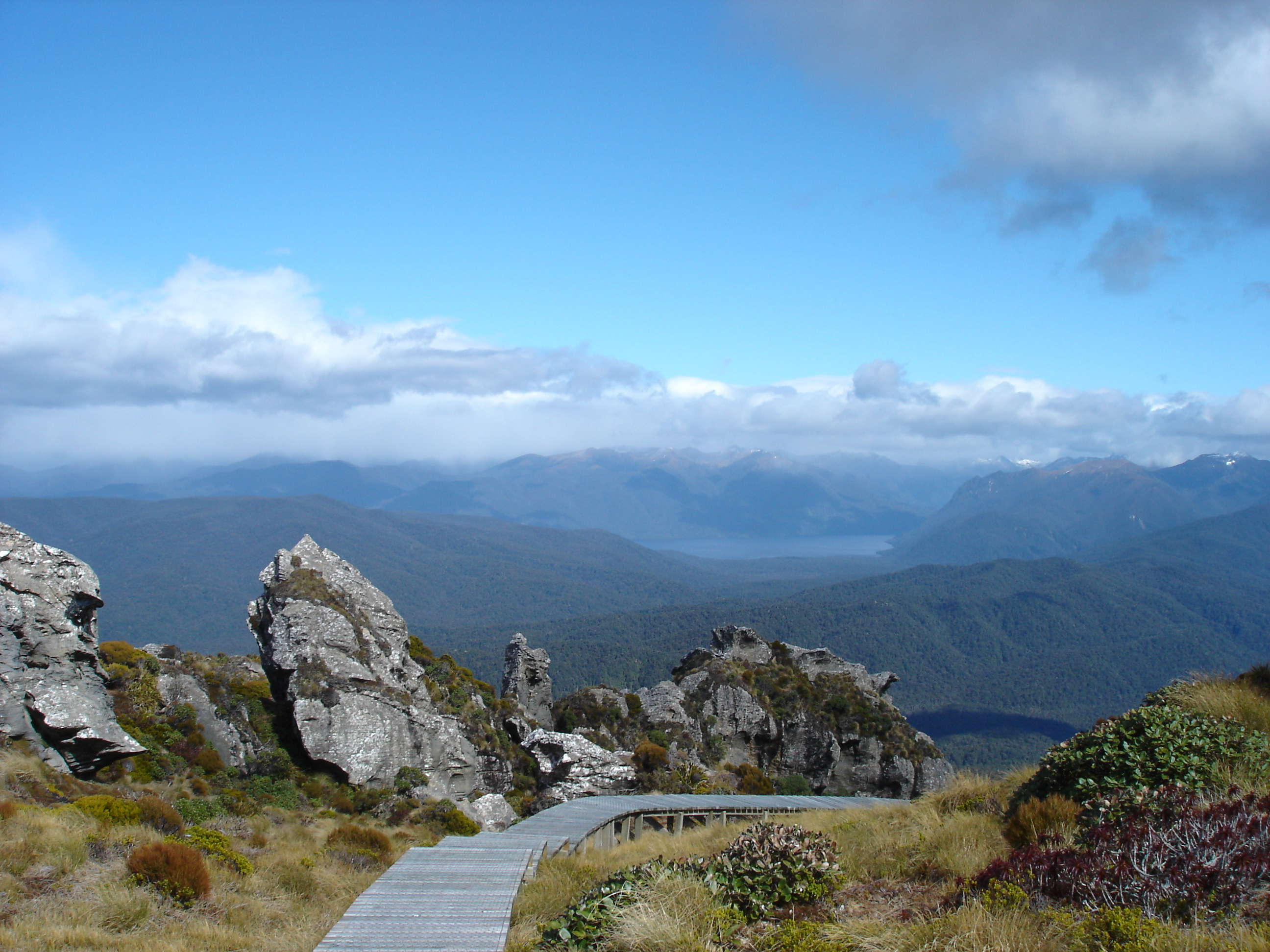 I took this photo, near Okaka hut on the Hump Ridge track.